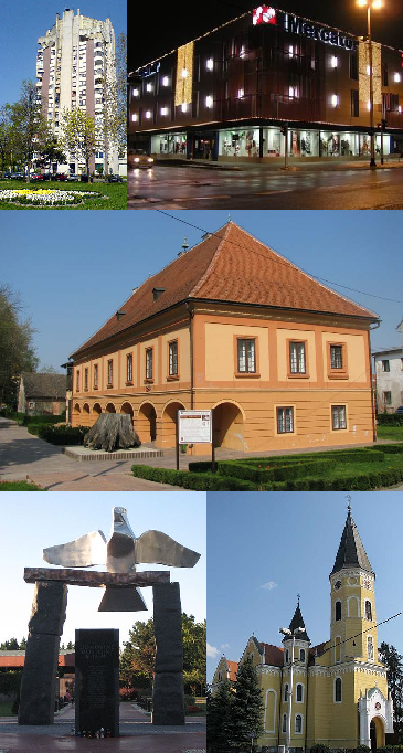 City of Velika Gorica patchwork